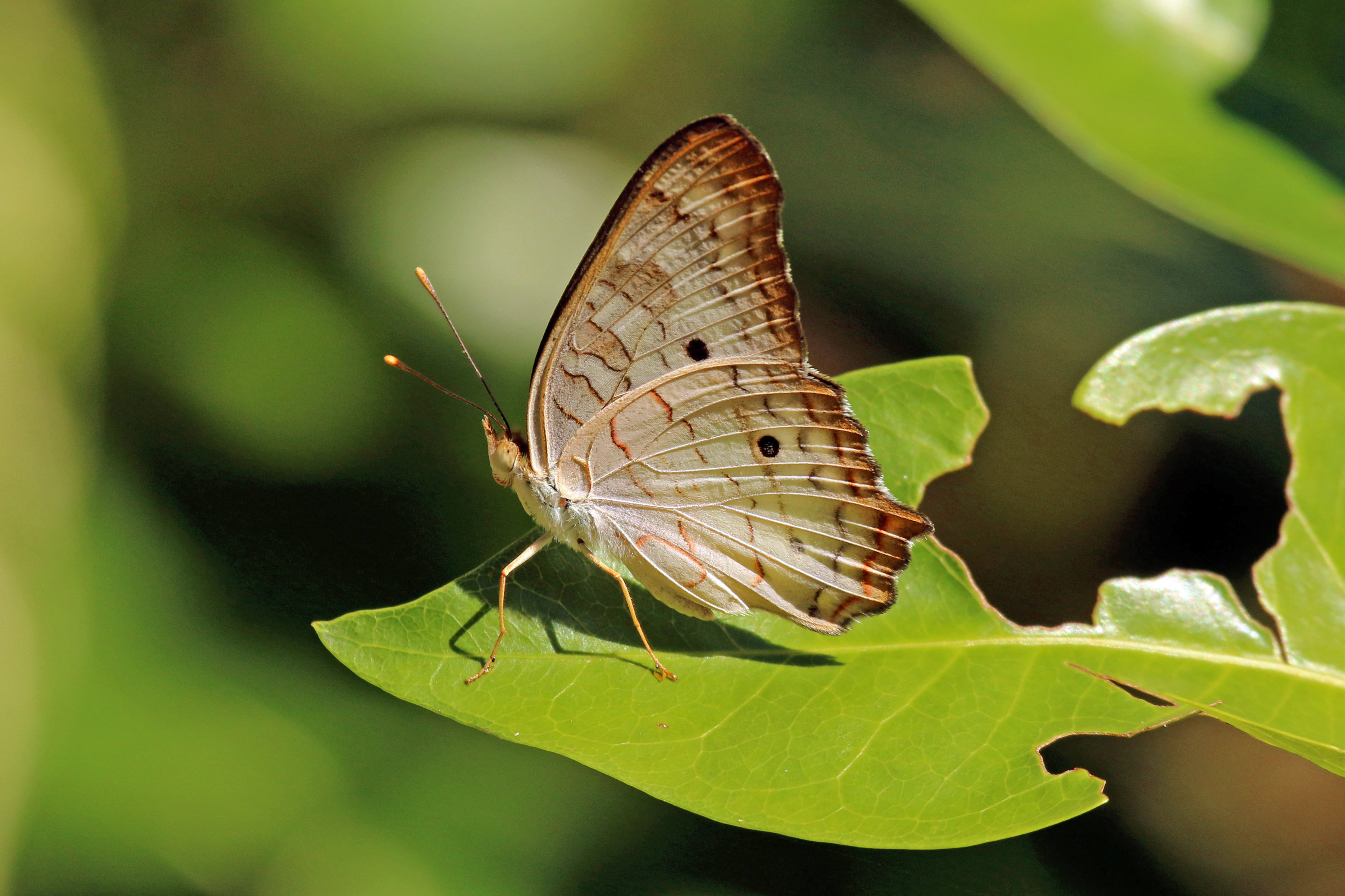 White peacock (Anartia jatrophae jatrophae), Tobago